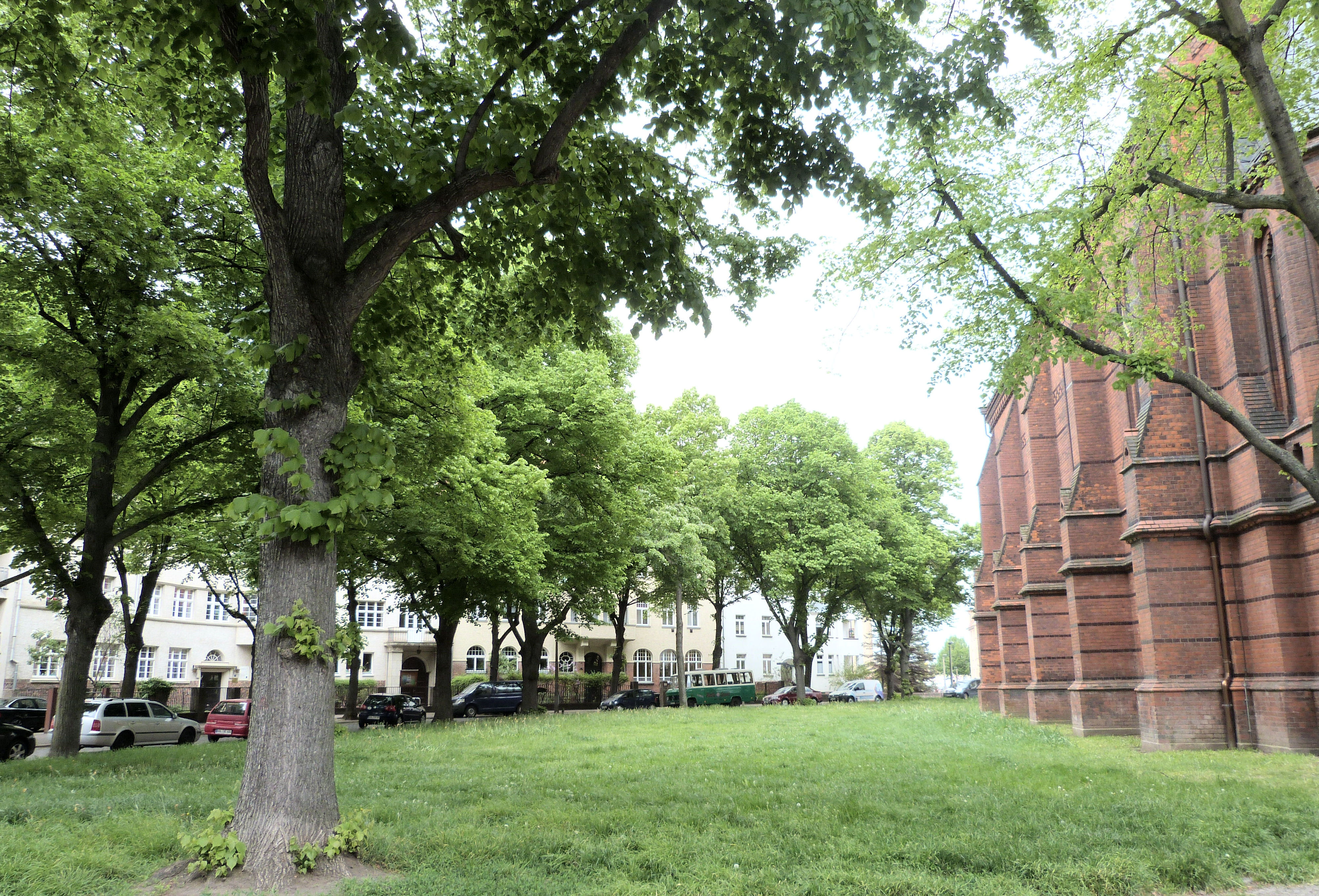 Square An der Johanneskirche in Halle (Saale)